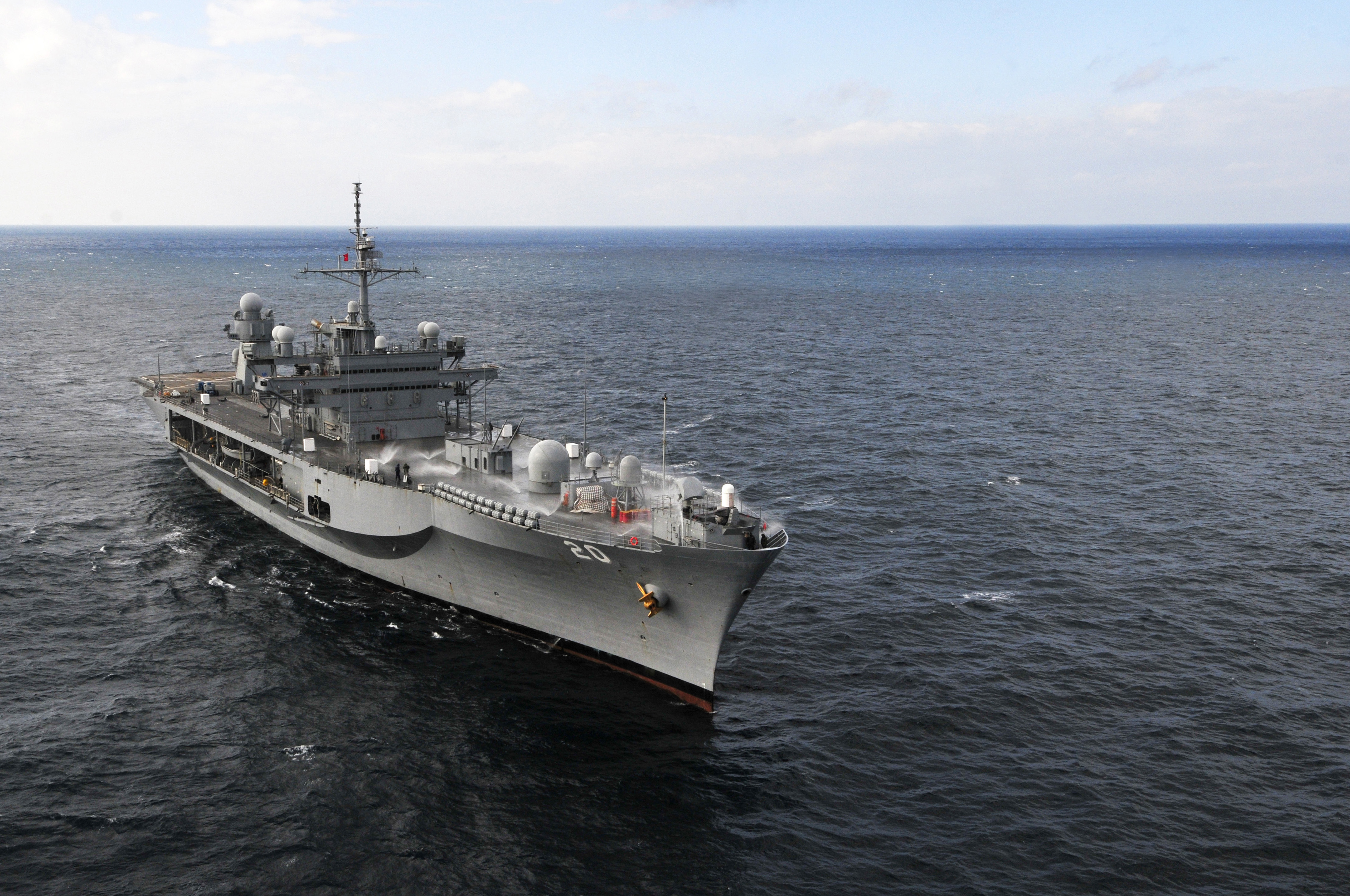 The amphibious command ship USS Mount Whitney conducts an operational test of the ship's saltwater countermeasure wash down system. Mount Whitney is the U.S. 6th Fleet flagship homeported in Gaeta, Italy, and operates with a hybrid crew of U.S. sailors and Military Sealift Command civil service mariners. Unit: Navy Media Content Services DVIDS Tags: test; Mediterranean Sea; U.S. Navy; amphibious command ship; USS Mount Whitney (LCC 20); countermeasure wash down system